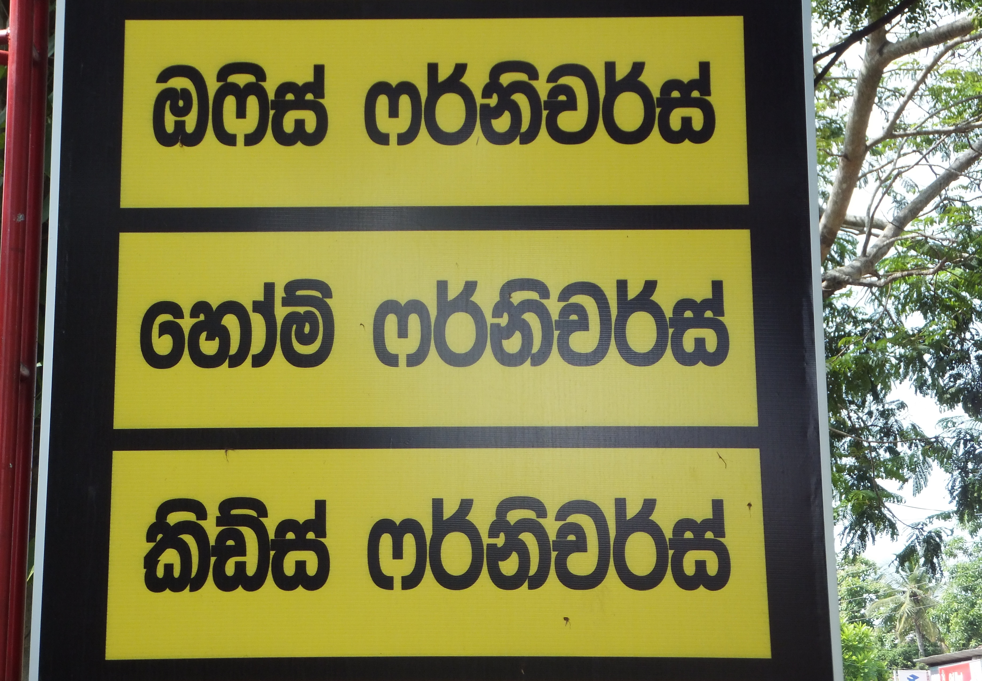 English words written using Sinhala Sinhala script in Sri Lanka